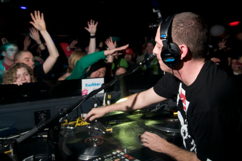 DJ Z-Trip plays to a sold out crowd at trendy Vancouver hot-spot Pop Opera, during a charity fundraising night for the Vancouver Food-bank Society (Scott Alexander/PressPhotointl.com)